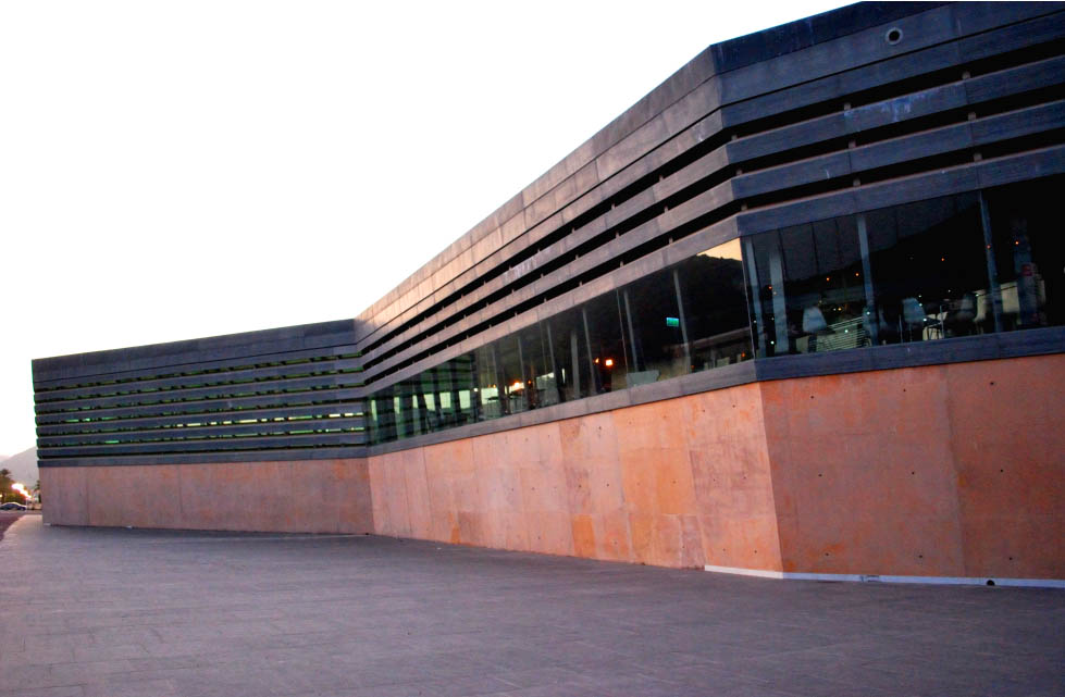 National Museum of underwater archaeology in Cartagena (Spain)